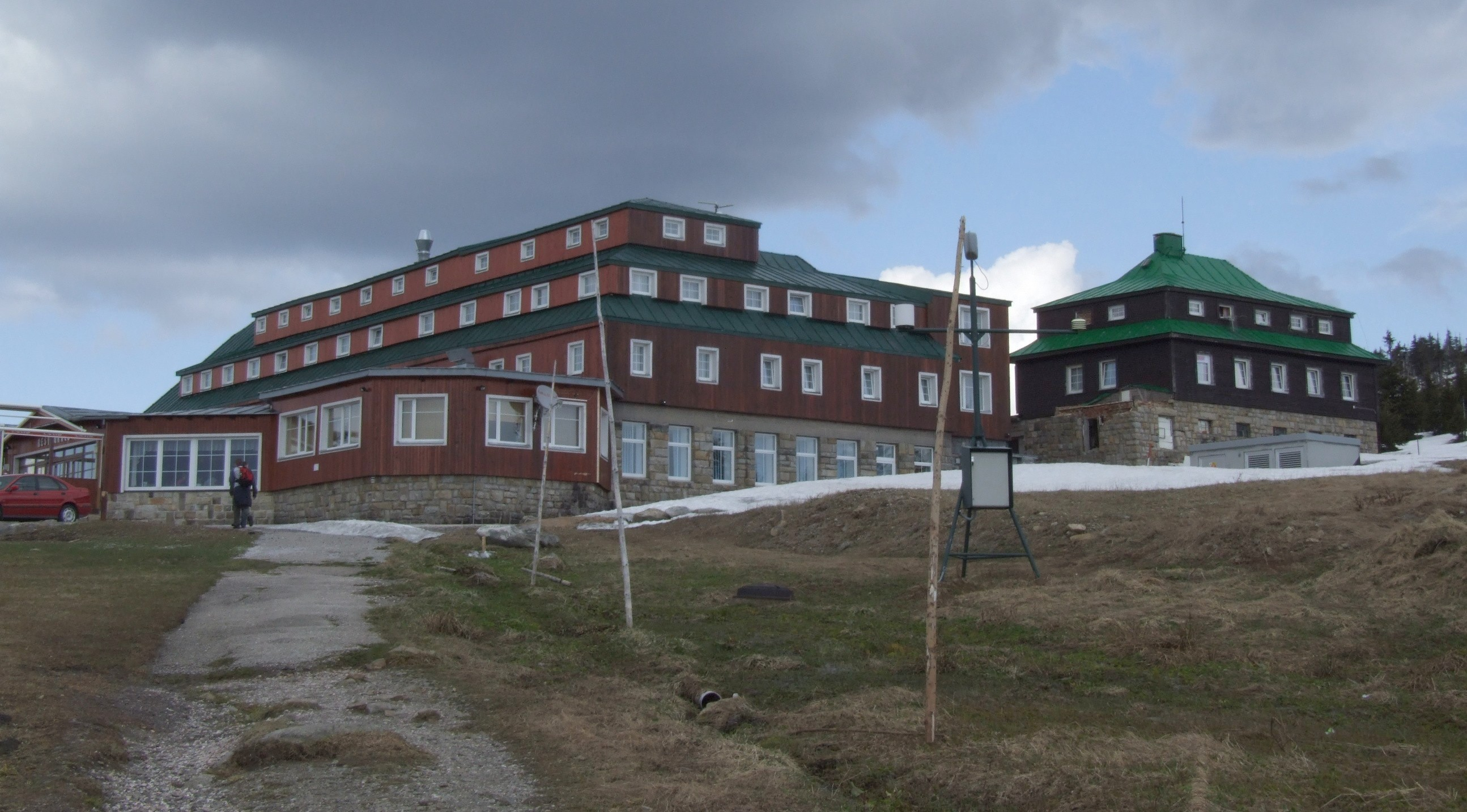 Špindlerova bouda - hotel in Krkonoše (Riesengebirge)